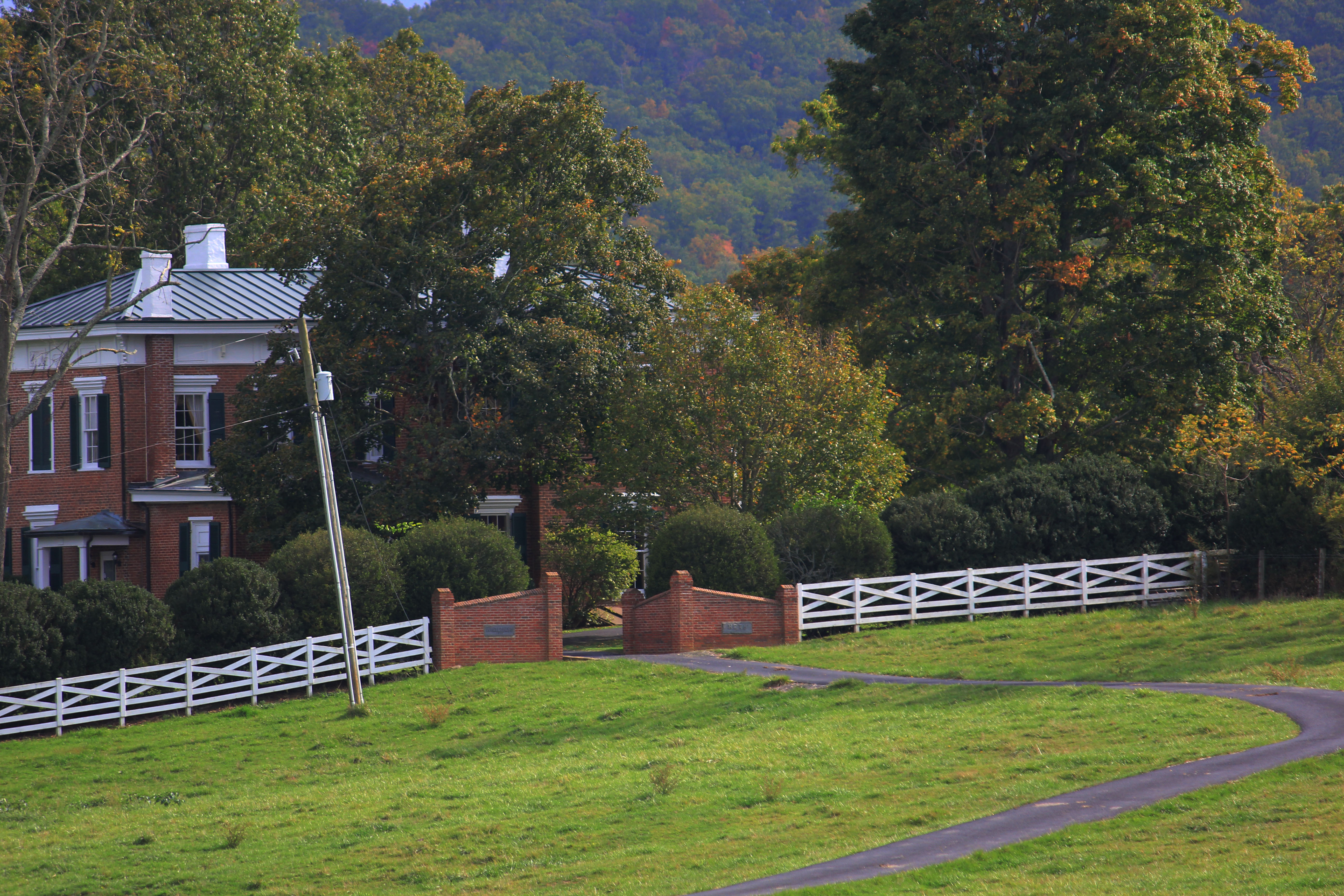 Whitethorne